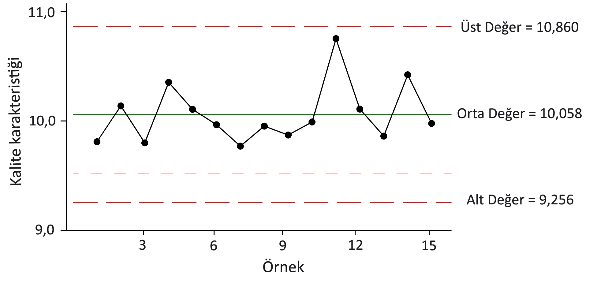 DanielPenfield 22:16, 30 June 2007 (UTC)